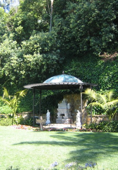 Mohandas Karamchand Gandhi's sarcophagus in the Self-Realization Fellowship Lake Shrine in Los Angeles (I took this photo on June 7, 2005 with a Canon SD-110 digital camera, and cropped and re-sized it with GIMP(by Uploader).